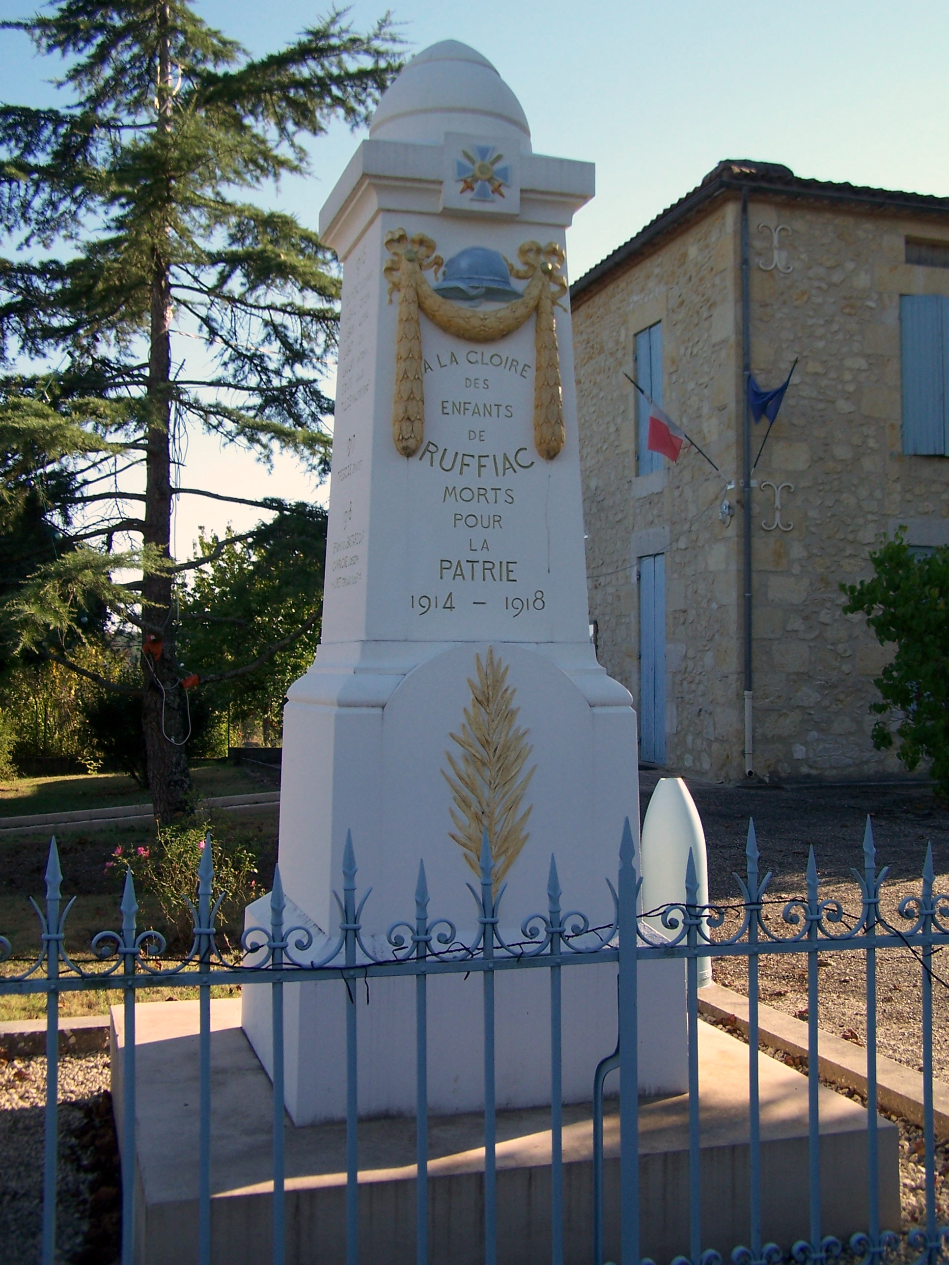 War memorial of Ruffiac (Gironde, France)